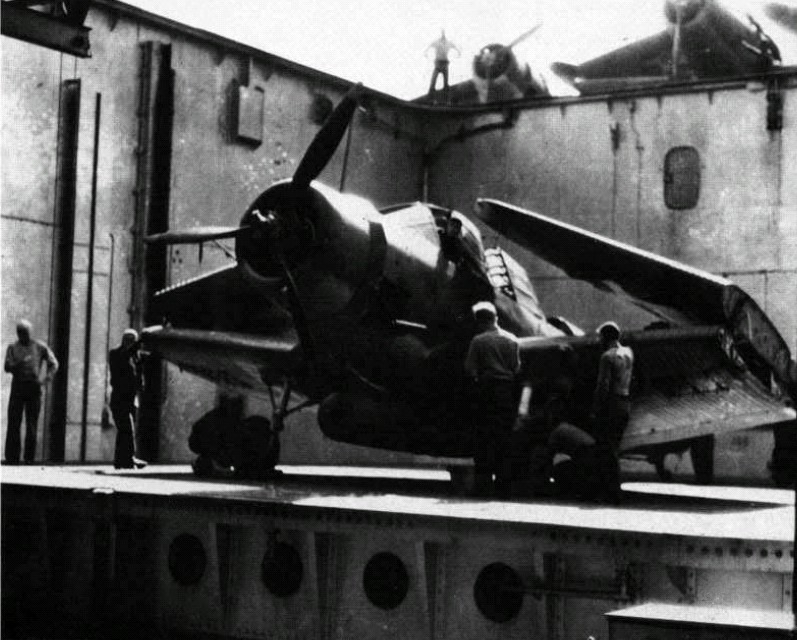 A U.S. Navy Douglas TBD-1 Devastator of torpedo squadron VT-6 on the aft elevator of the aircraft carrier USS Enterprise (CV-6) in June 1942.